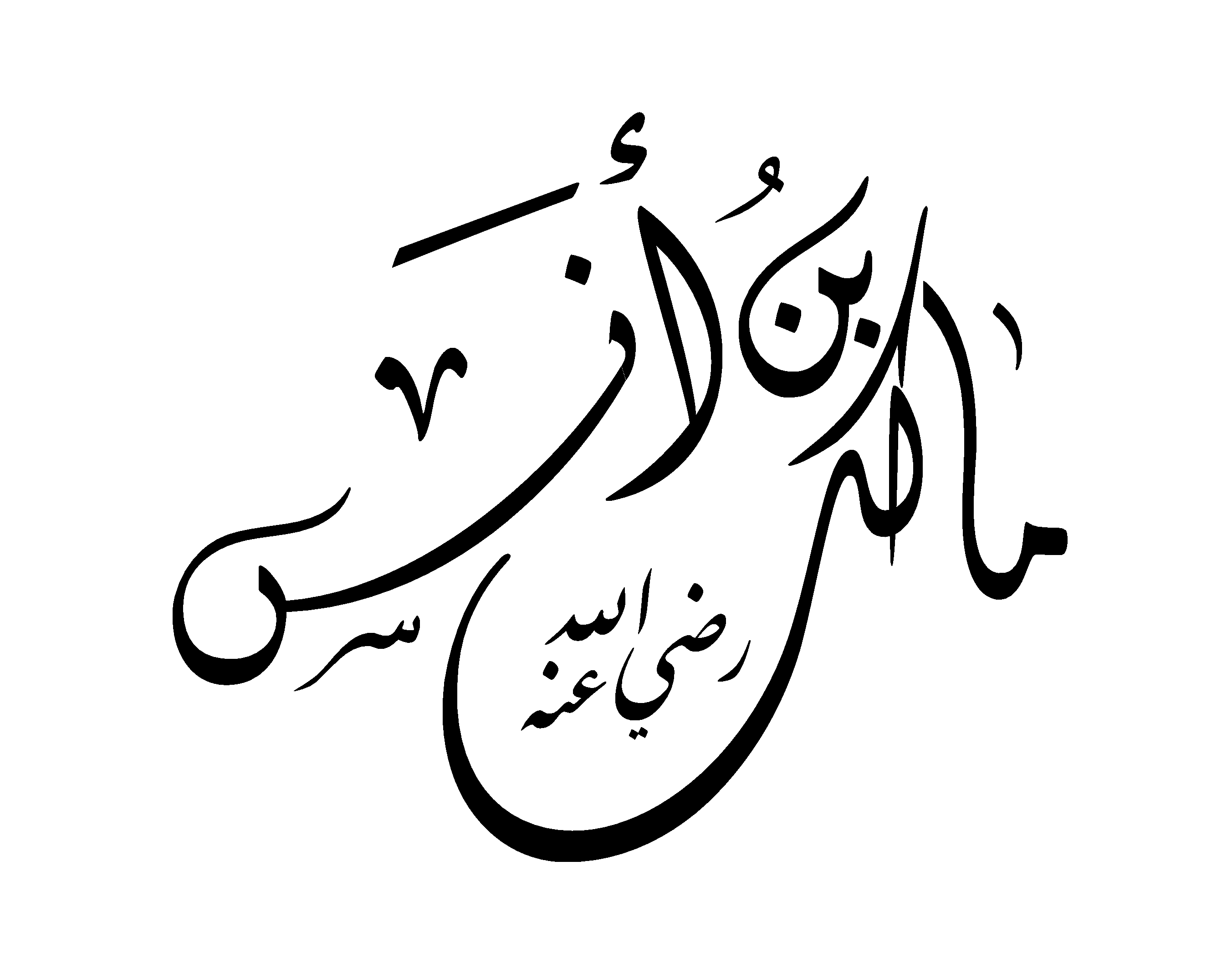 Malik ibn Anas's name in Arabic script